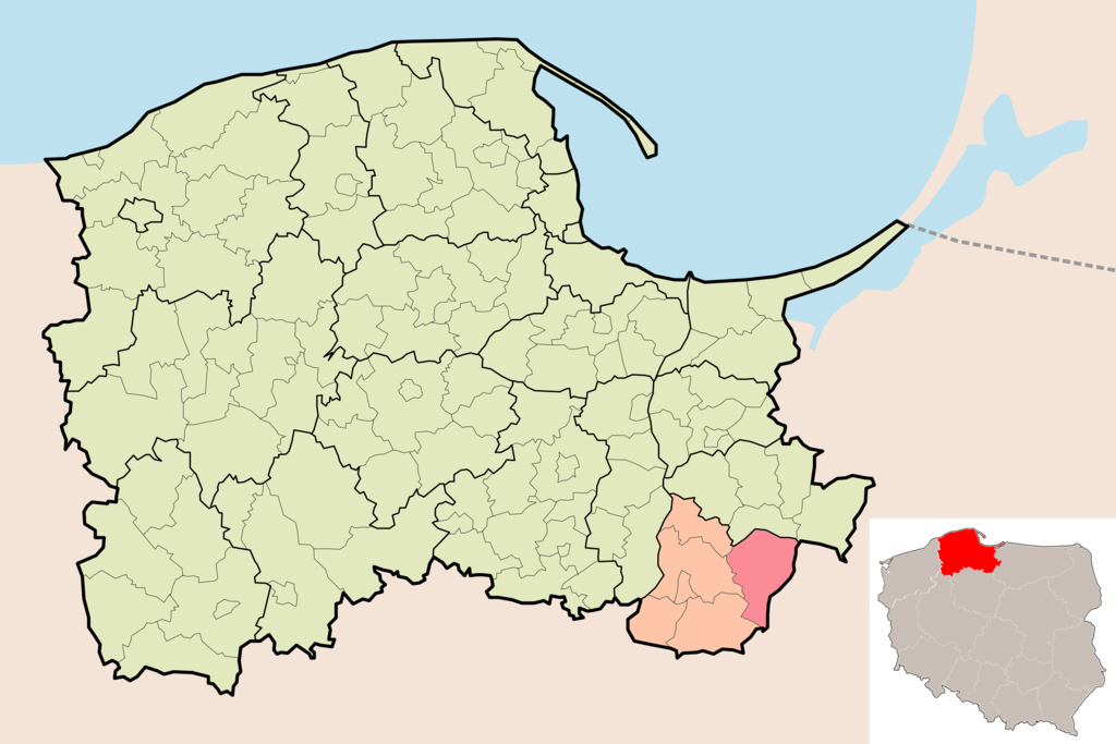 Locator map for communes (gmina) in pomorskie, with powiat highlighted Map - PL - powiat kwidzynski - Prabuty.PNG